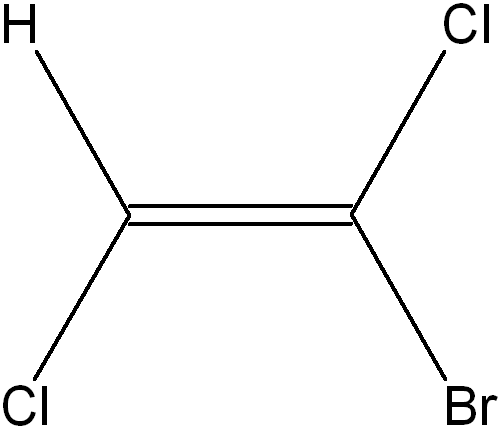 (Z)-1-bromo-1,2-dichloroethene